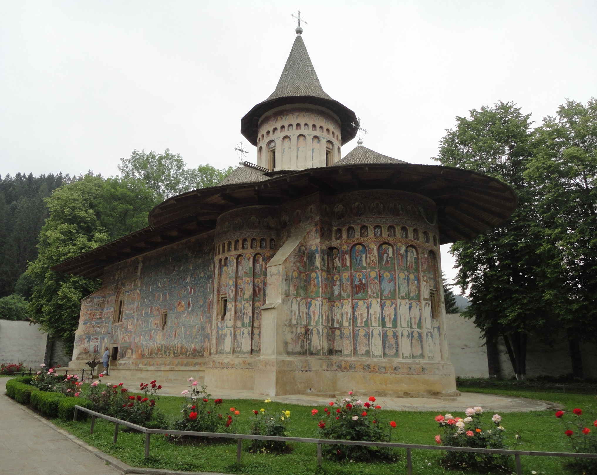 Monastery of Voronet